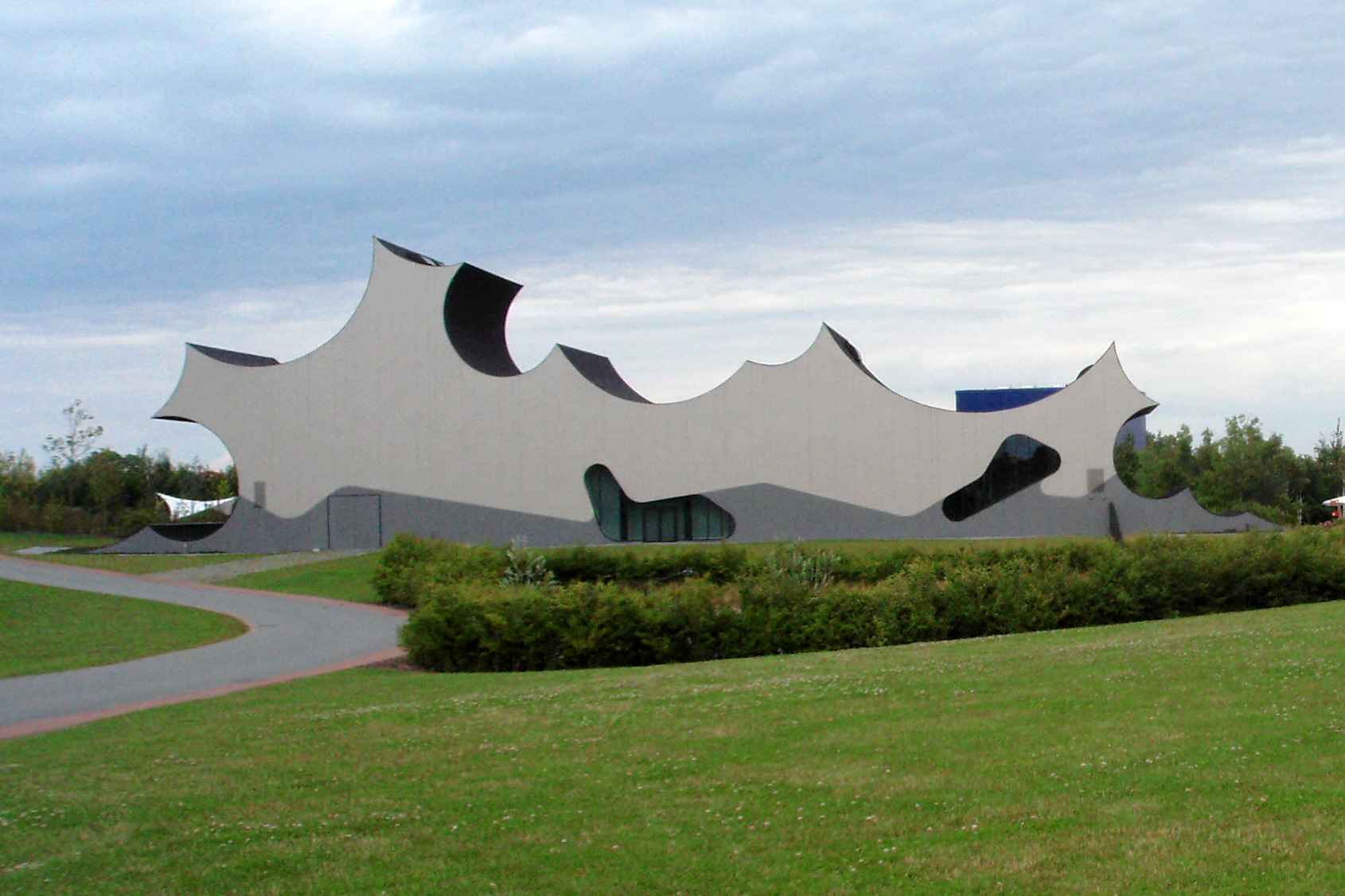 Danfoss Universe as seen from Nordborgvej, Havnbjerg, Denmark